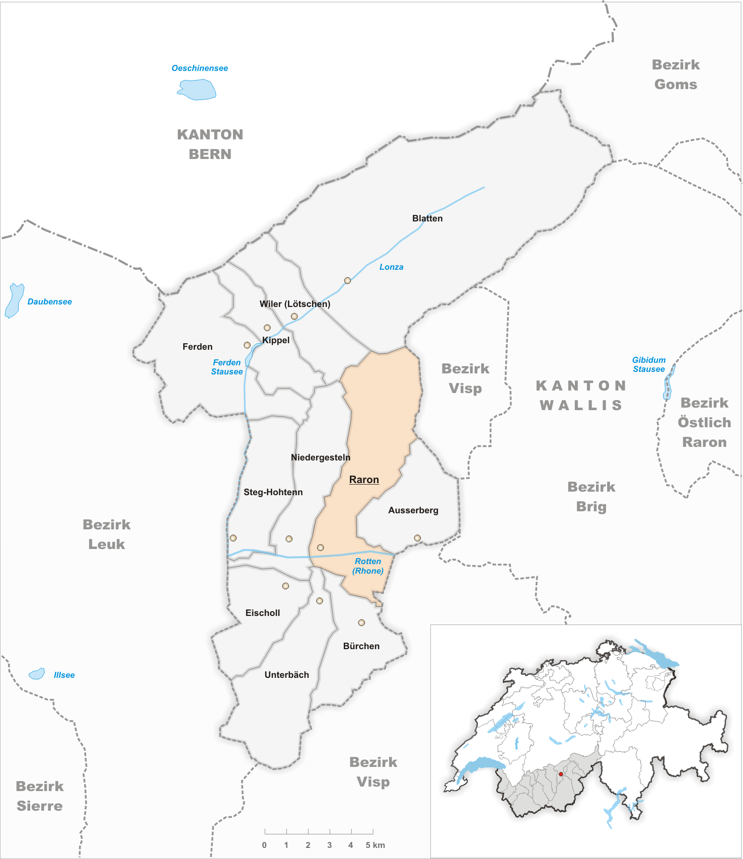 Municipality Raron